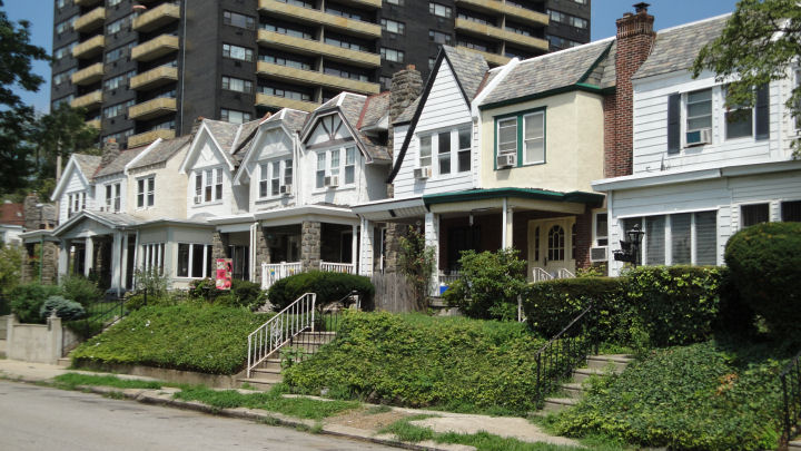 This is a sample of the Tudor-inspired homes found on Sherwood Road (between 46th and 47th Streets) in Belmont Village.